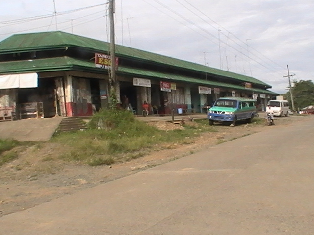 A jeepney waits on the side of the road outside a shop in San Rafael, Iloilo, Philippines.